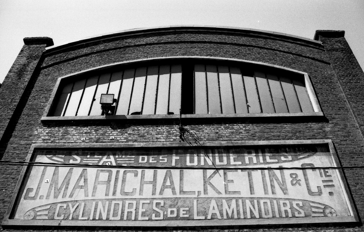 Marichal & Ketin, Liège, Belgium